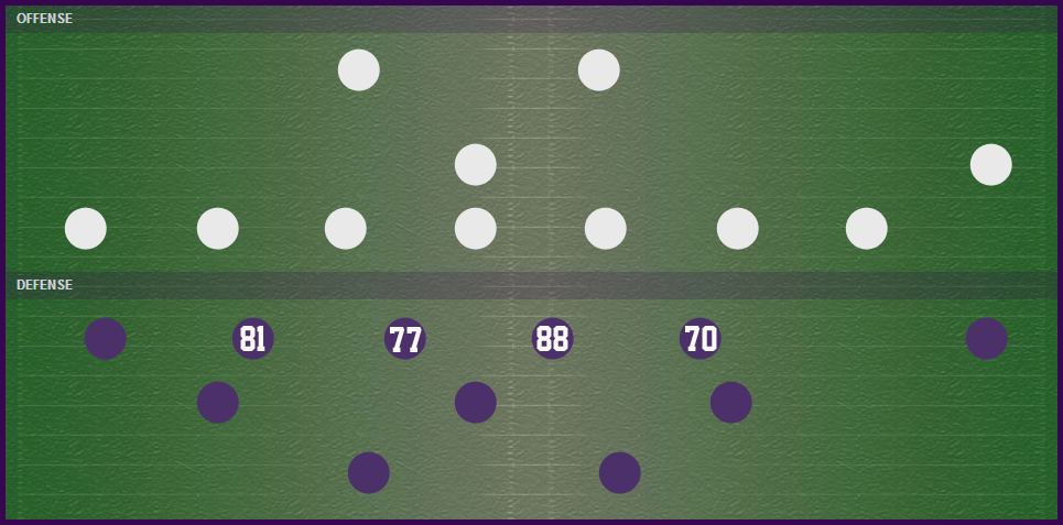 Typical Purple People Eaters line-up